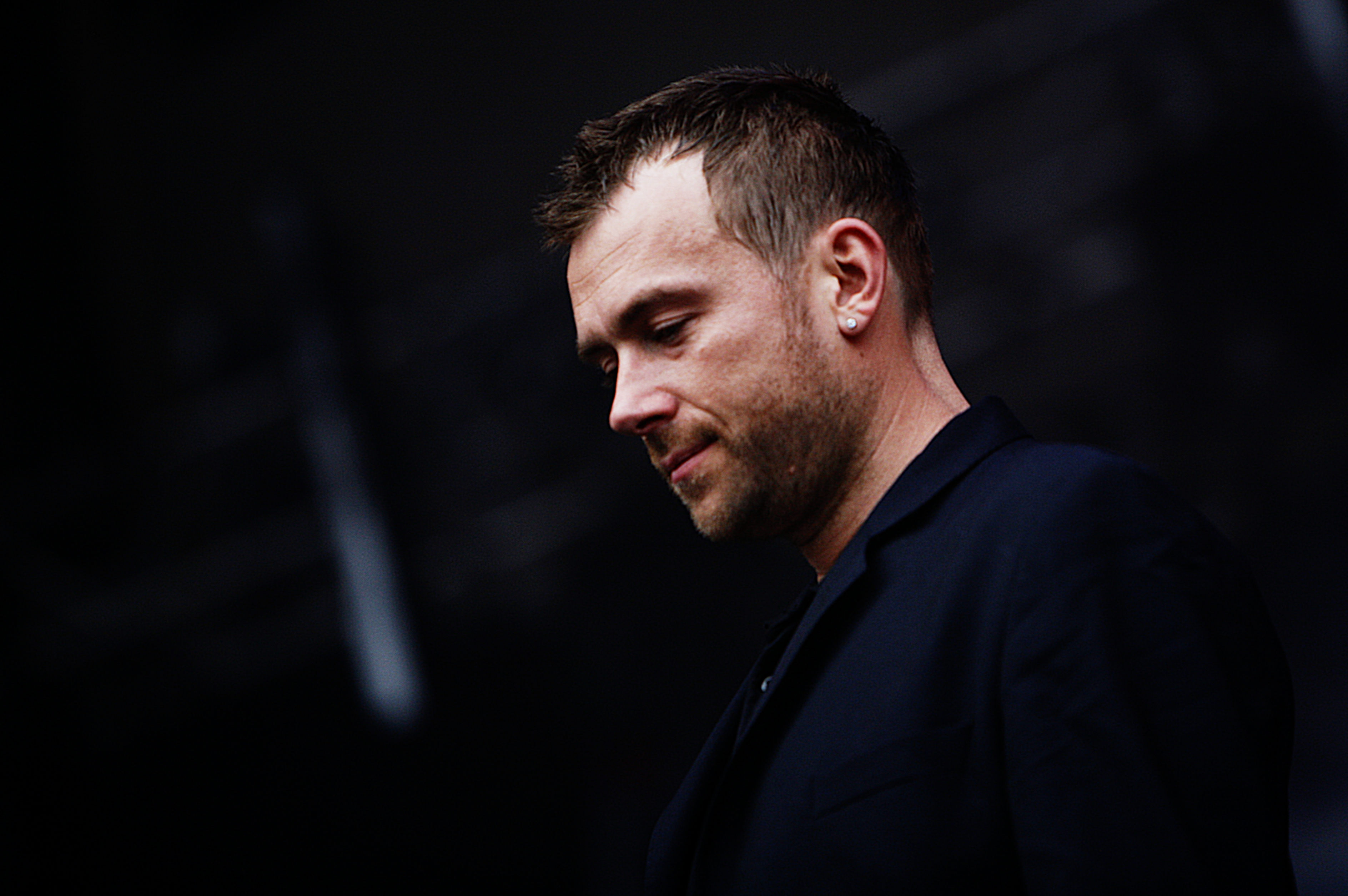 Damon Albarn at the Eurockéennes of 2007